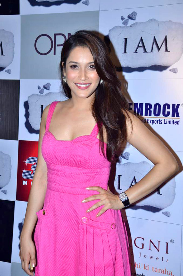 Rashmi Nigam From The SRK, Urmila, Juhi & Chitrangda at 'I Am' National Award winning bash